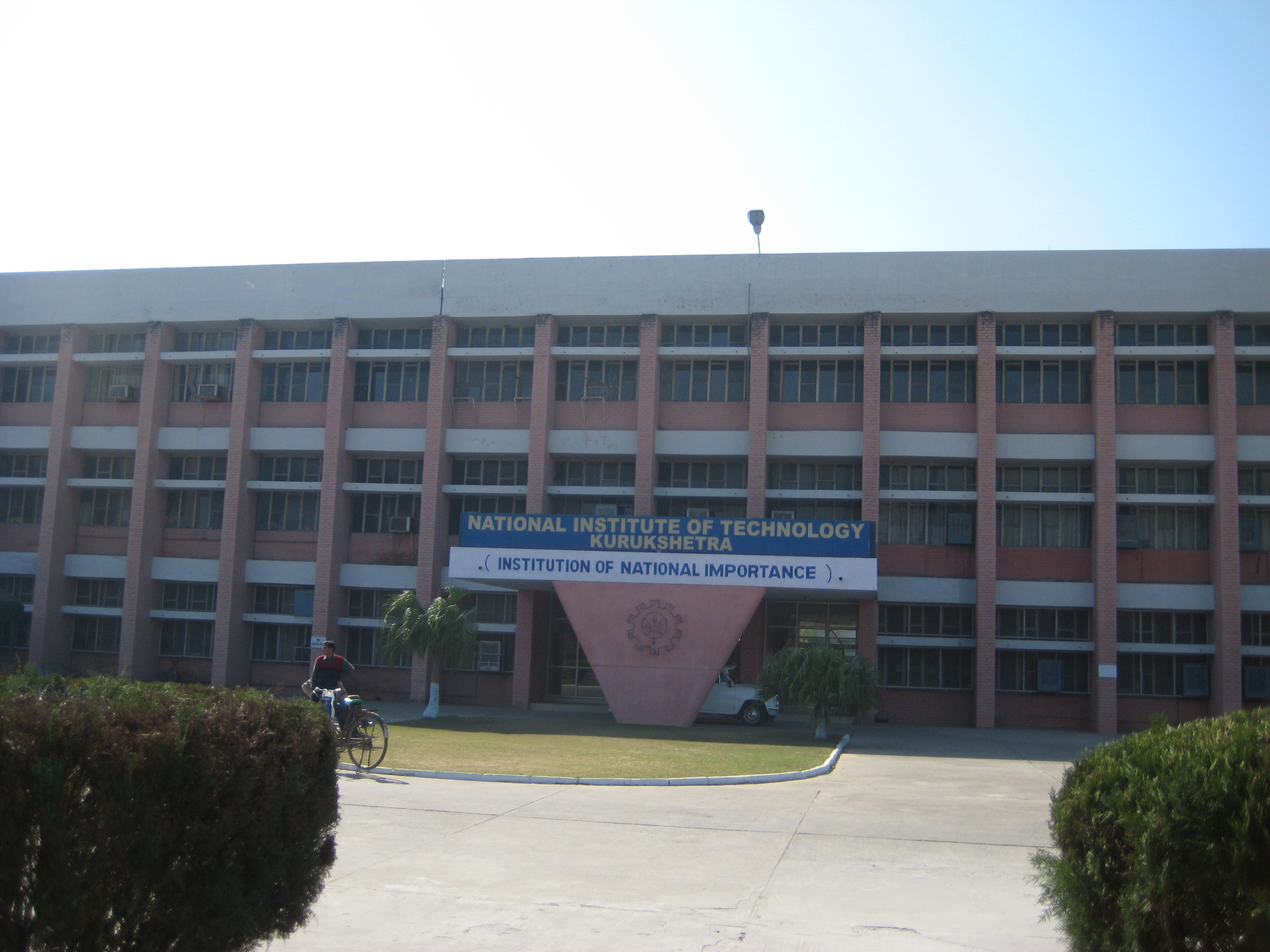 NIT Kurukshetra